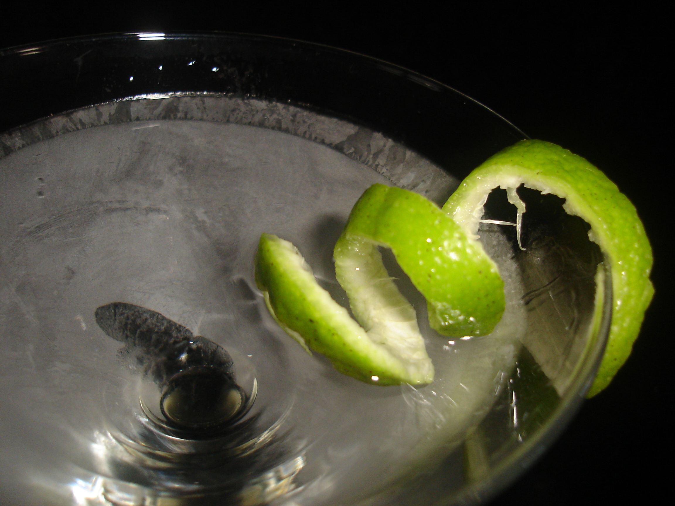 tanqueray martini: (citrus, gin, martini, tanqueray 10, lime, twist, drink, drinking, Friday, cocktail)